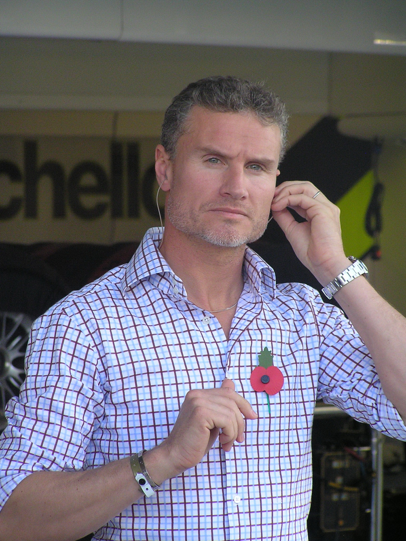 David Coulthard at the 2009 Abu Dhabi Grand Prix